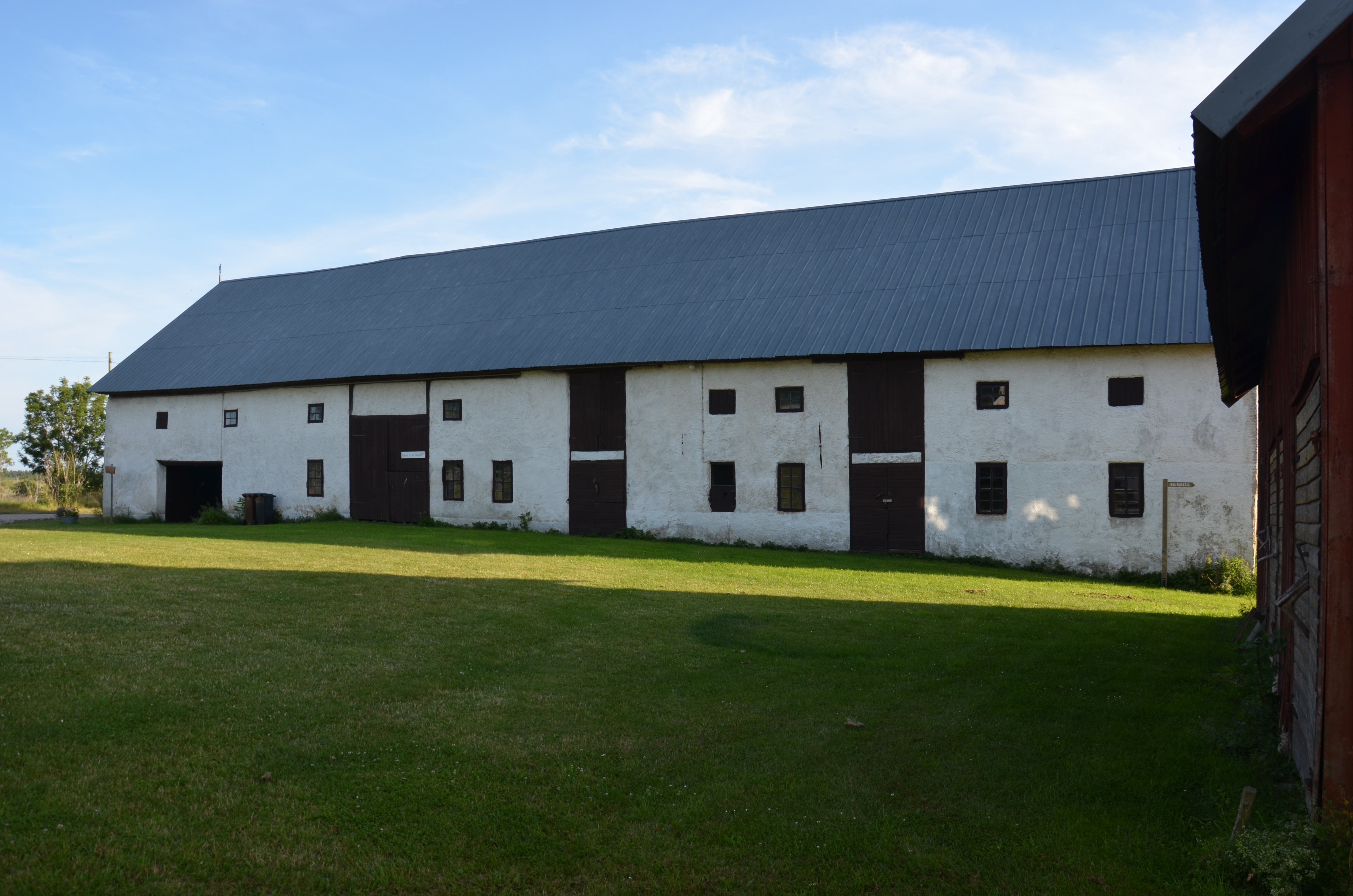 Hajdeby, Kräklingbo, Gotland, södra gården 01